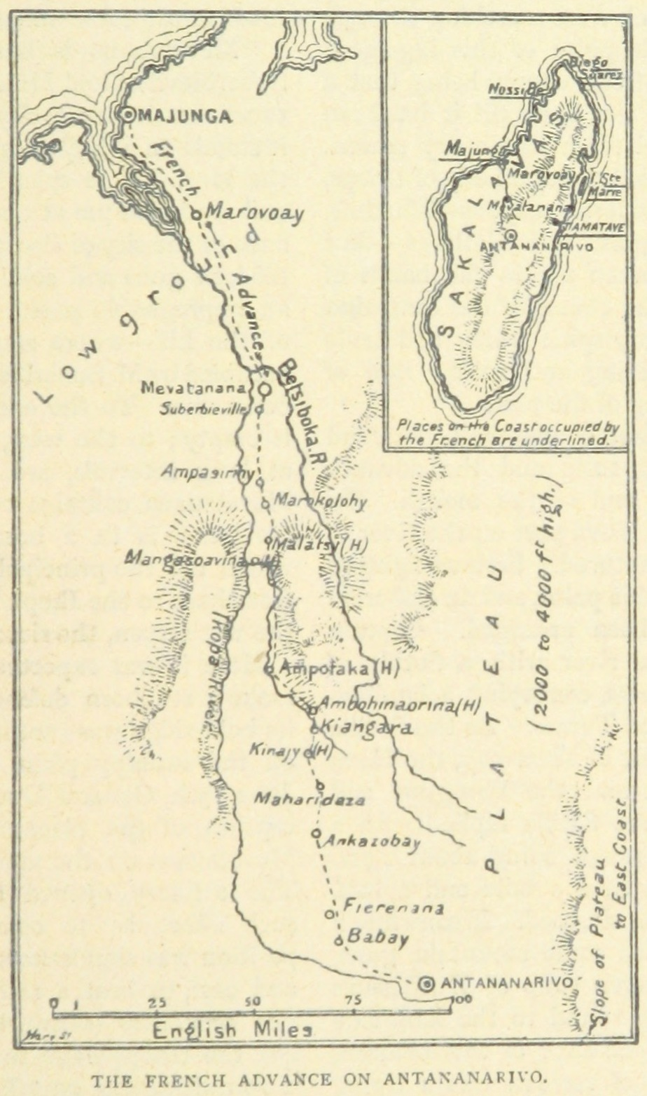 The French route during the Second Madagascar expedition. A second caption in the original text read "Note-The places marked thus (H) are fortified villages on the road from Mevatanana to the capital".